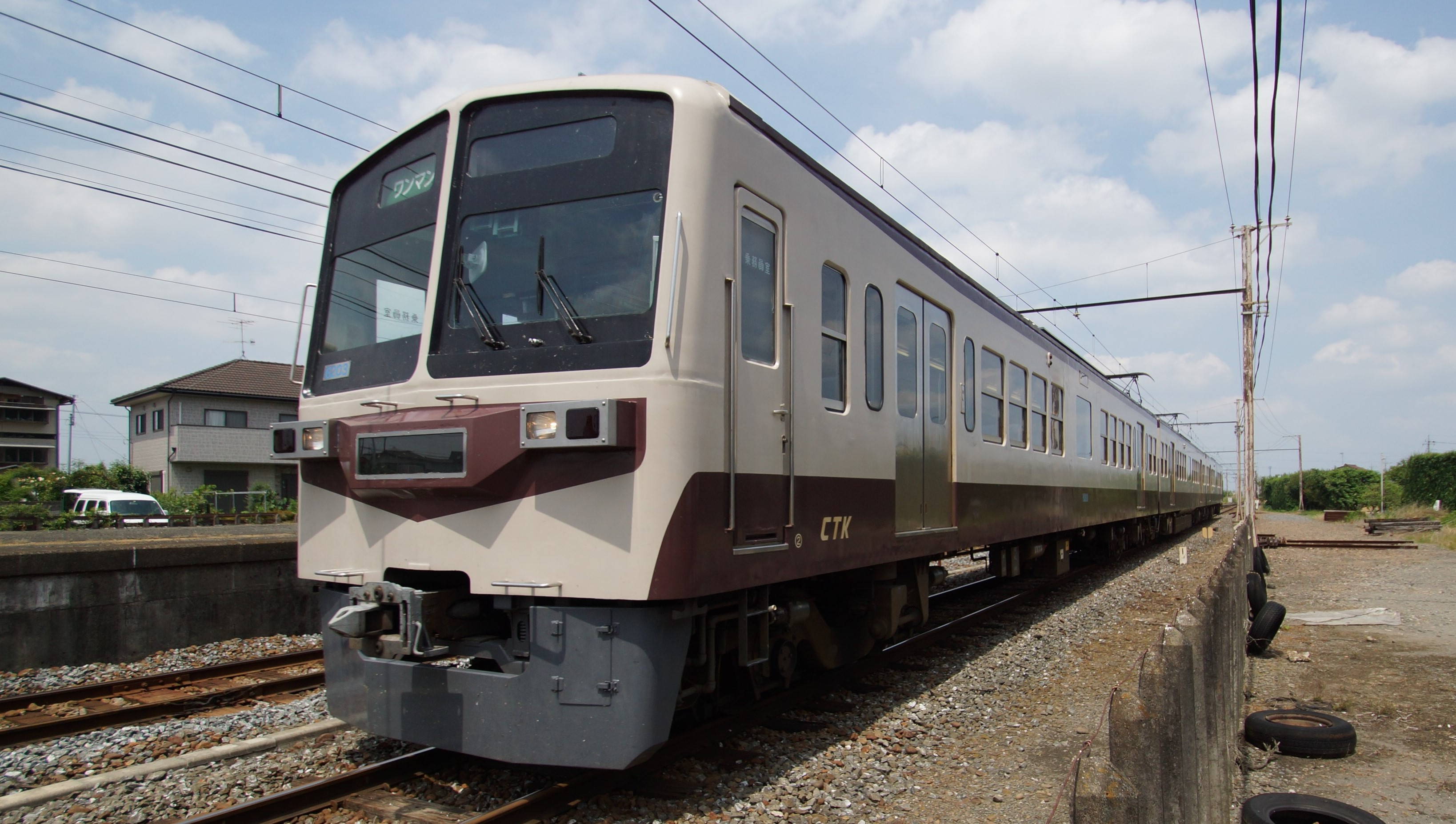 Reliveried Chichibu Railway 6000 series EMU set 6003 passing through Nagata Station on the Chichibuji 5 express service from Kumagaya to Mitsumineguchi